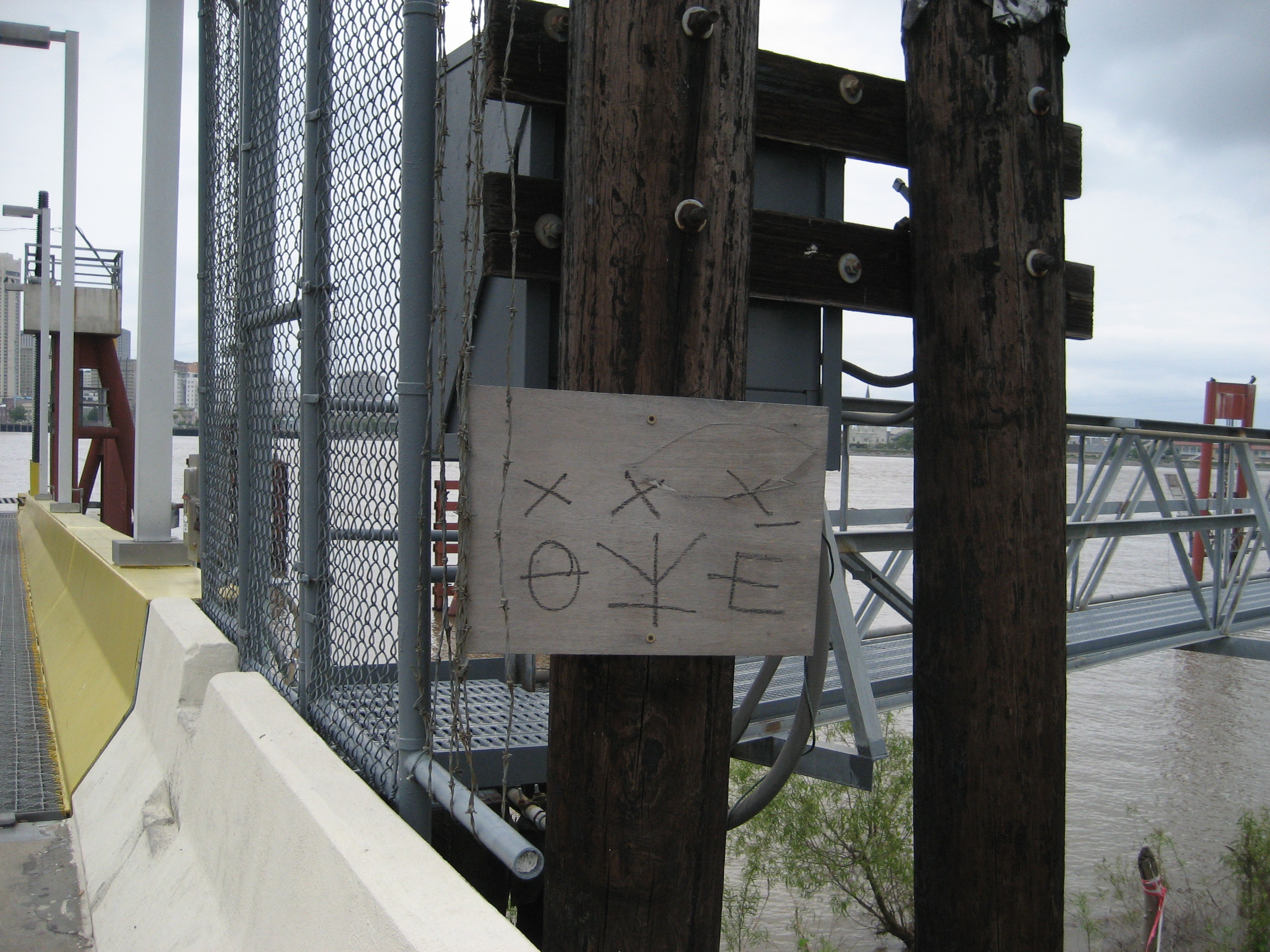 Hobo or tramp markings at Algiers entrance to Canal Street Ferry across Mississippi River, New Orleans Ferry is free for pedestrians or on bicycle. "X" means "OK", slashed circle "Good way to go". I don't know what the other symbols mean.